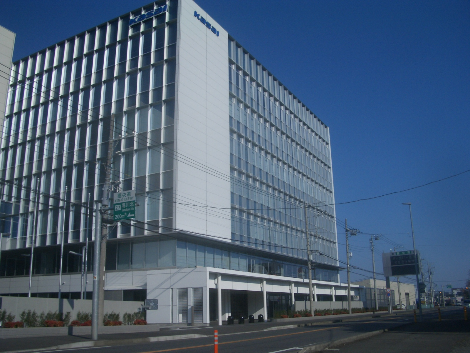 The head office of KASAI KOGYO co,.ltd in Kanagawa,Japan.